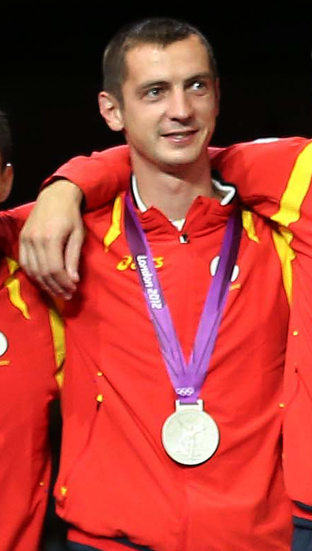 2012 London Olympic Games Korea won the gold medal men's team Saber fenching. Gu Bongil, Kim Junghwan, Won Woo-young and Oh Eunseok 2012. 08. 05. hoto by Korean Olympic Committee Ministry of Culture, Sports and Tourism Korean Culture and Information Service 2012 런던 올림픽 한국 남자 사브르 단체전 금메달 획득 구본길, 김정환, 원우영, 오은석 사진제공 - 대한체육회 문화체육관광부 해외문화홍보원